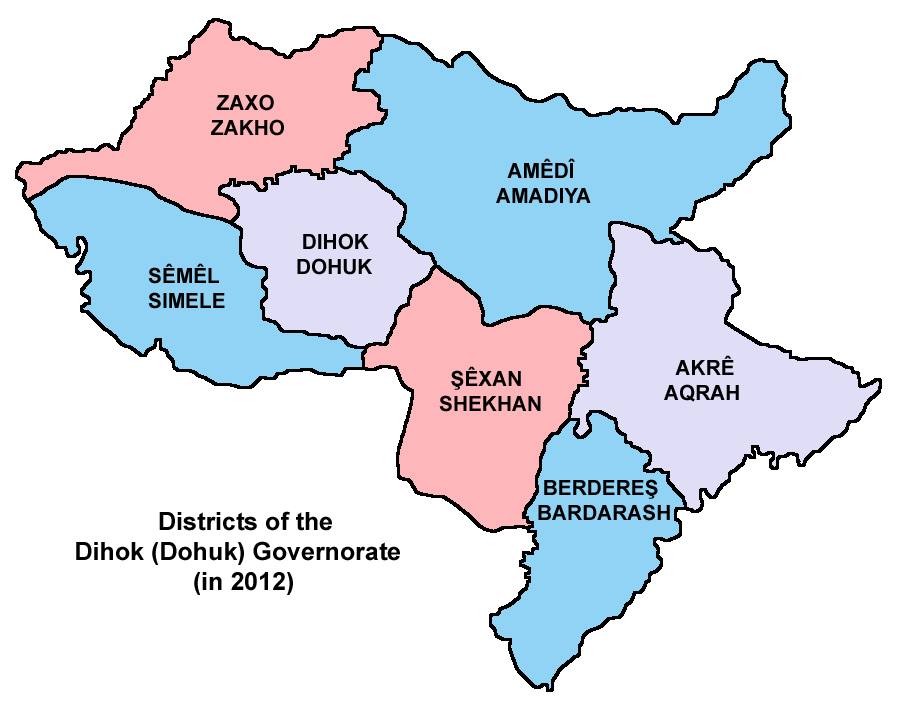 Map showing the districts of the Dihok (Dohuk) Governorate of Kurdistan Region in Iraq (in 2012).